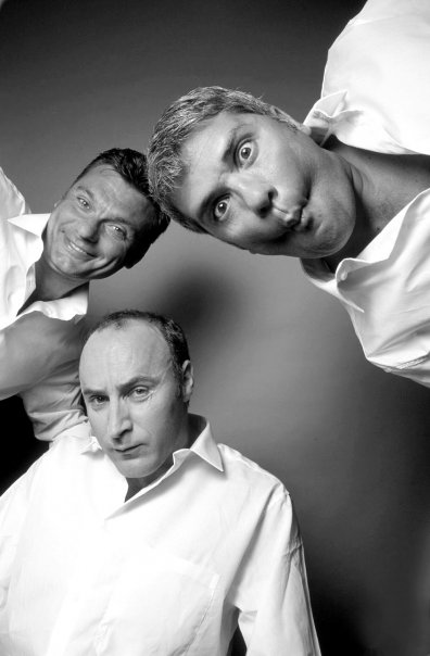 Comedians from the theatre company Tricicle